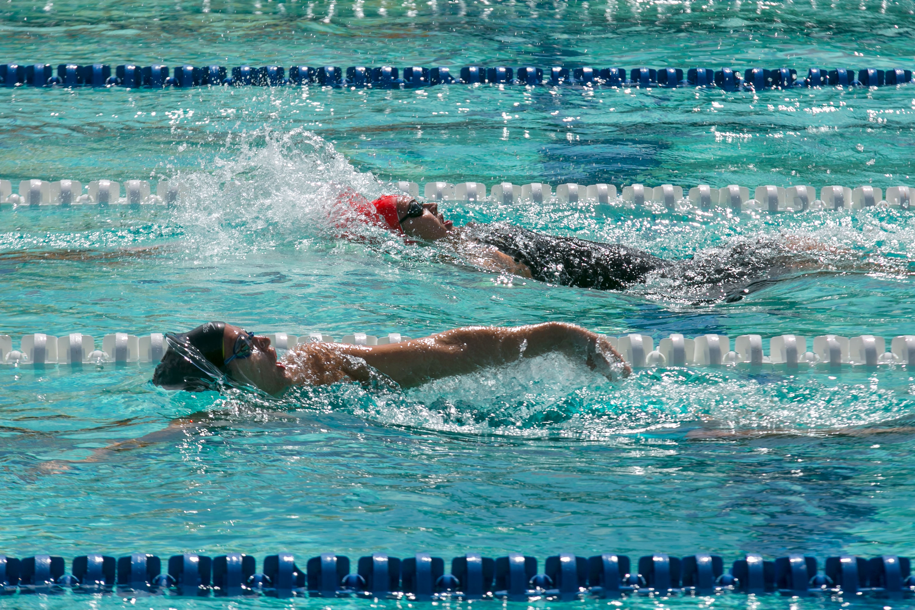 Kathleen Baker, Kylie Masse in the red cap, compete in 200m backstroke heat in the 2017 Santa Clara Grand Prix